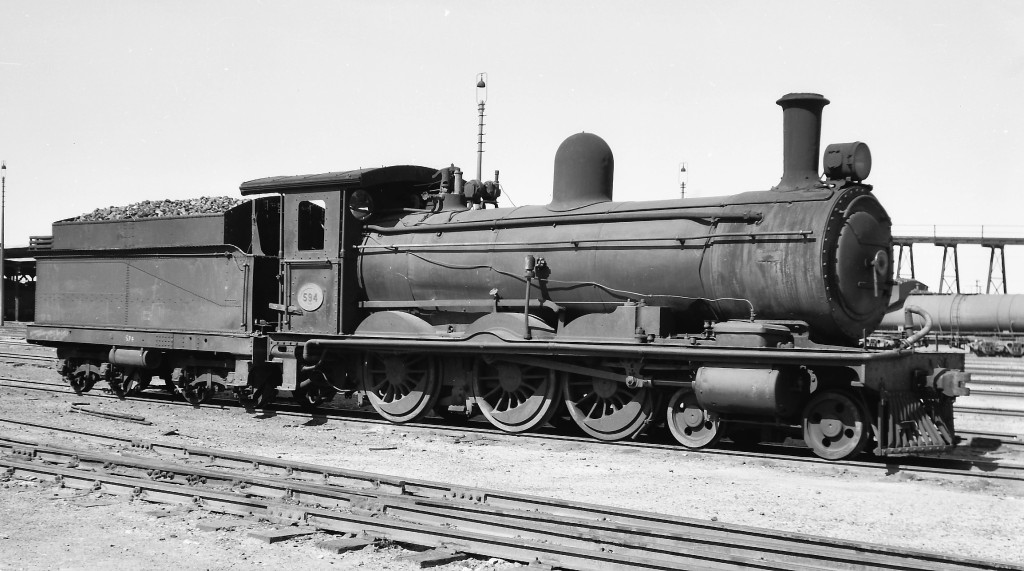 Ex Cape Government Railways Class 6 665 (4-6-0)South African Railways Class 6D 594 (4-6-0)Location: Sydenham Loco